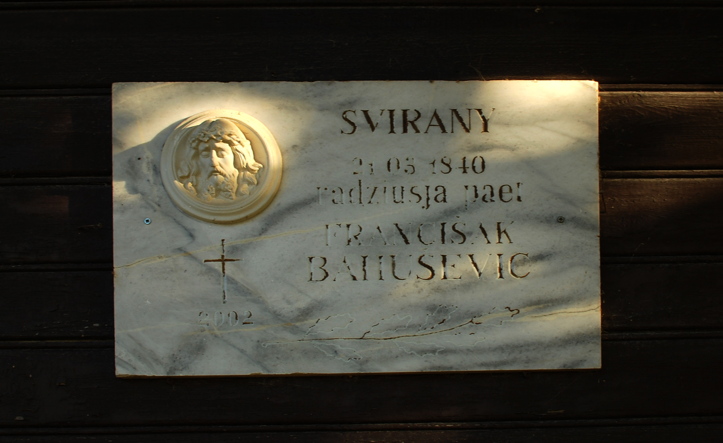 Memorial plaque of Francišak Bahuševič in Svironys, Vilnius district, Lithuania.